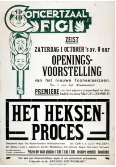 Cornelis Petrus van Rossem: Het heksenproces. Poster opening evening performance of this play. Figi theatre Zeist, 1 October 1927.